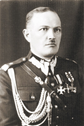 Photography of Mieczysław Smorawiński